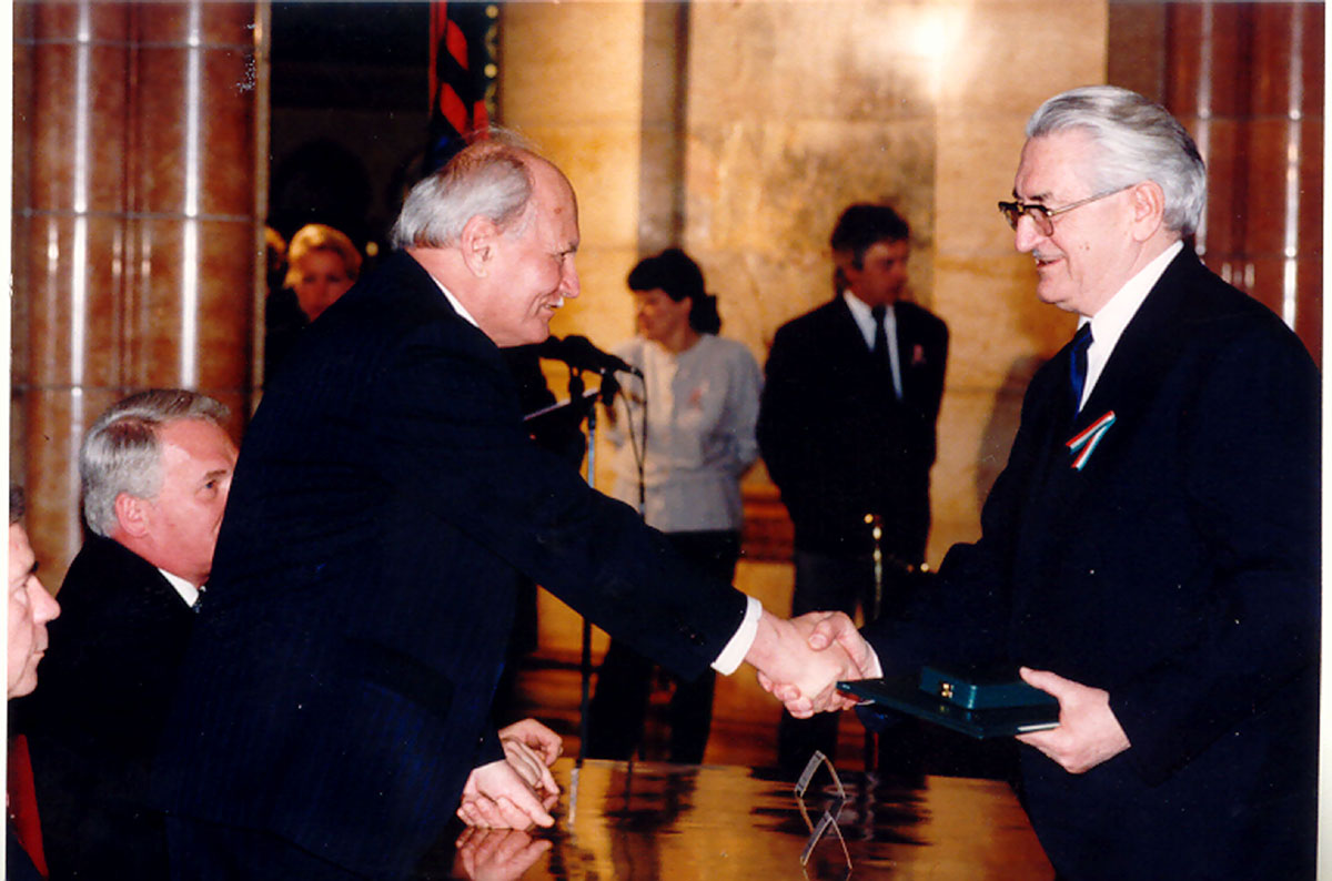 Árpád Göncz and Prof Dr István Dömök